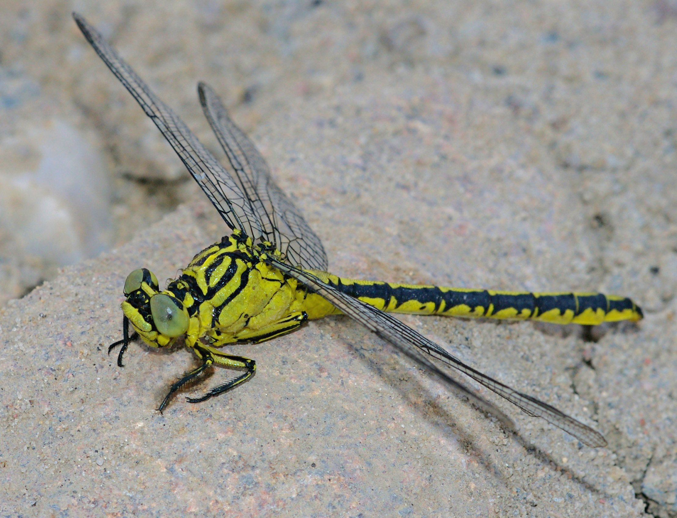 Young female specimen of the dragonfly Gomphus flavipes ("River Clubtail").